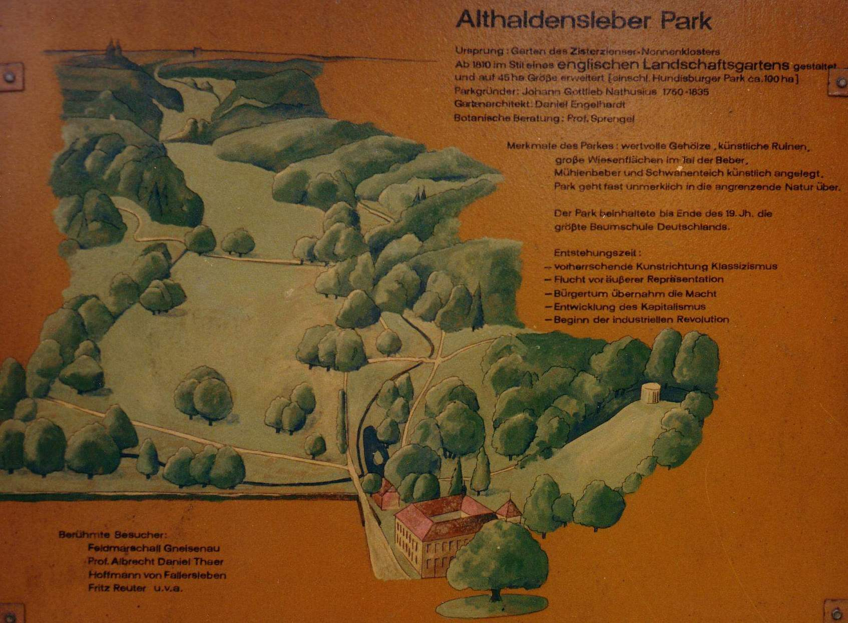 A desciption about the landscape-park in Haldensleben